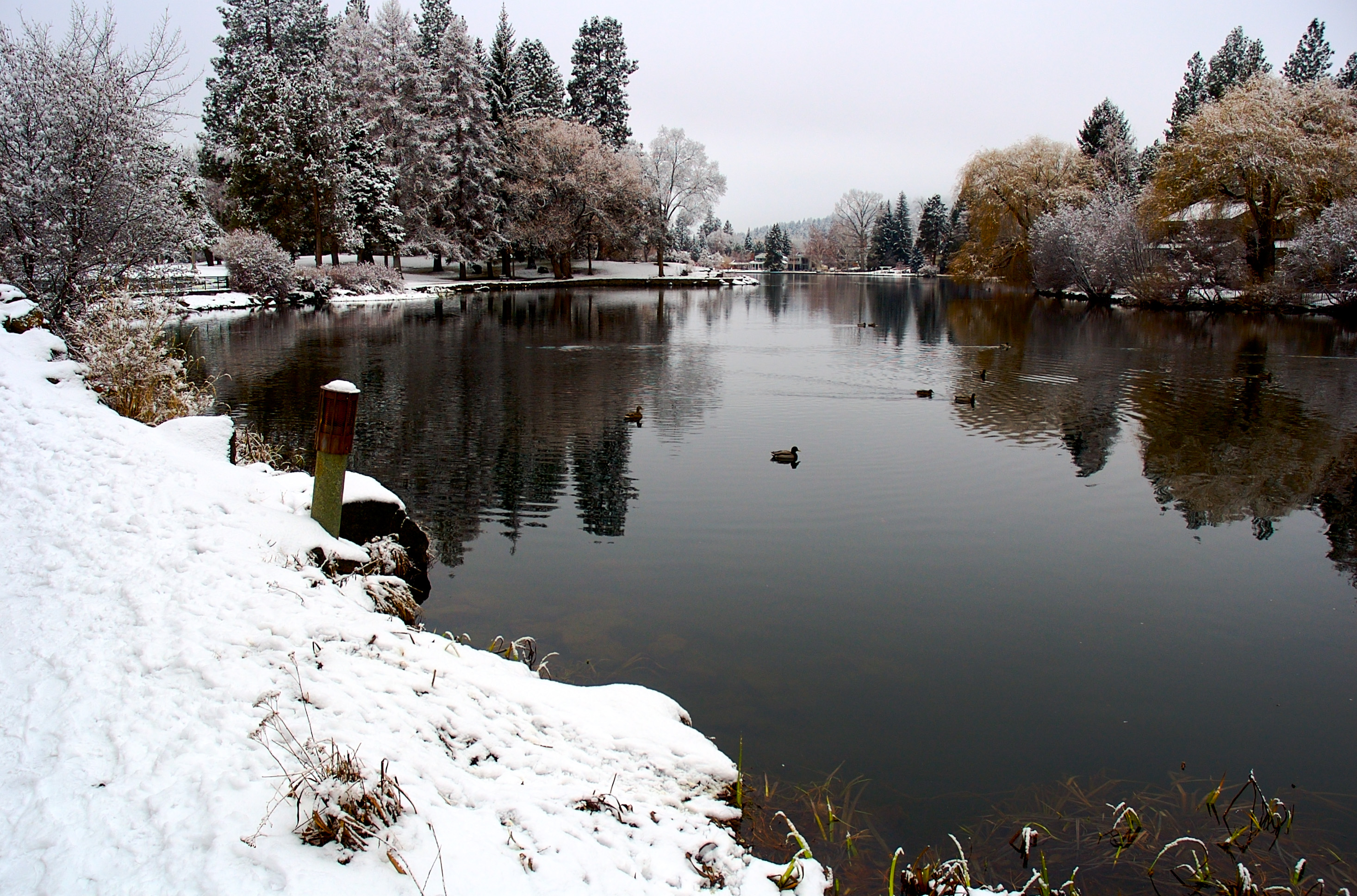 Drake Park, Bend, Oregon. Photographed by myself on 2004-12-27.